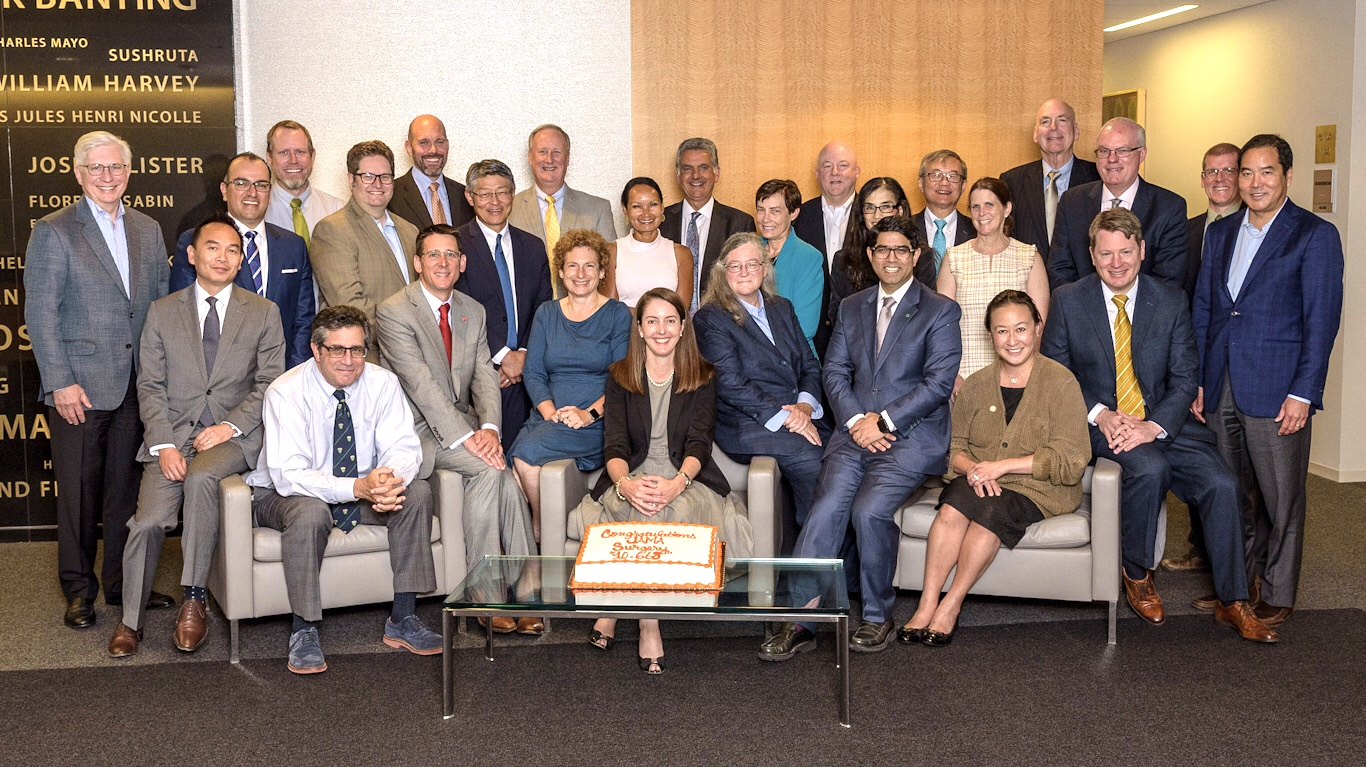 Color digital image of the JAMA Surgery editorial board celebrating the publication achieving the 2018 impact factor of 10.668, making the publication the number one surgery journal in the world and the first surgery journal to break double digits in the scientometric index. The cake in the photo has the cited impact-factor number inscribed on it. Seated at the center of this photograph is the editor-in-chief of JAMA Surgery, Melina R. Kibbe, MD, who in 2018 and in the year of this image's uploading (2020) holds the position of Distinguished Professor and Chair of the Department of Surgery at the University of North Carolina at Chapel Hill. The photograph was taken on July 15, 2019.